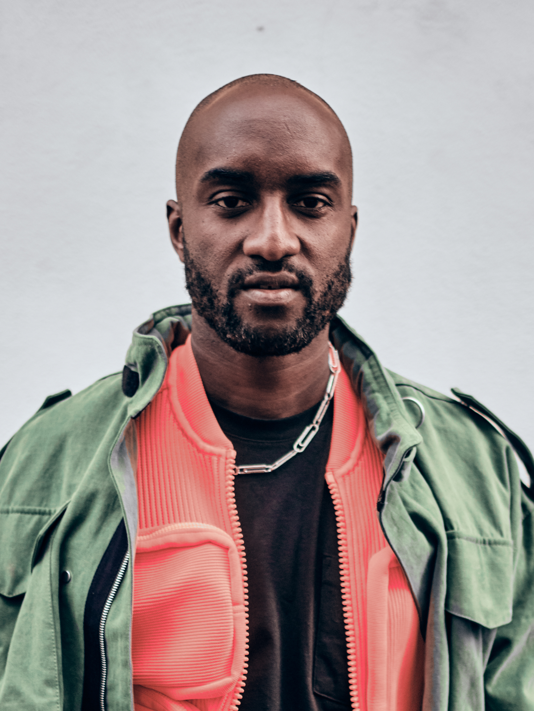 Virgil Abloh at Paris Fashion Week Autumn/Winter 2019